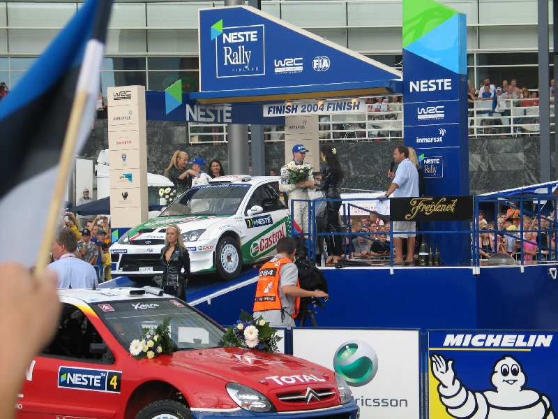 Markko Märtin, his co-driver Michael Park and their Ford Focus RS WRC 04 (2nd place) on the podium of the 2004 Rally Finland.